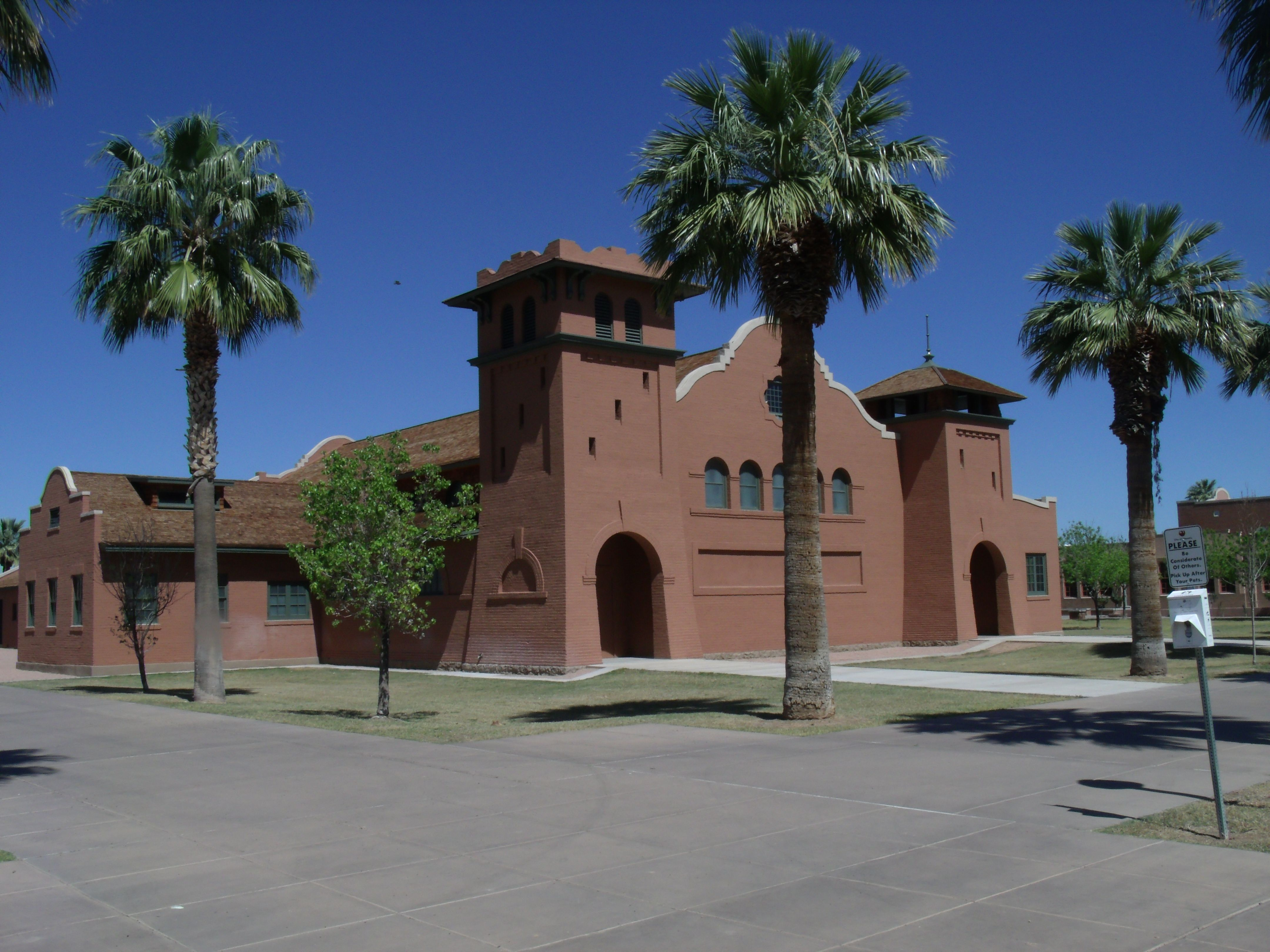 Memorial Hall (built 1922) — of the historic Phoenix Indian School (NRHP Historic district). Located within Steele Indian School Park, in Encanto Village, central Phoenix.